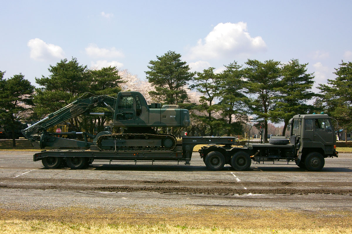 Taken by Los688,8-Apr-2007,JGSDF Camp-Utsunomiya.JGSDF Tokuoogata semi trailer tractor,4th Engineer Group..PD-self. ja:2007年4月8日、投稿者撮影。陸上自衛隊宇都宮駐屯地記念行事。第4施設群、特大型セミトレーラー牽引車（74式特大型トラックをベース）油圧ショベル搭載。